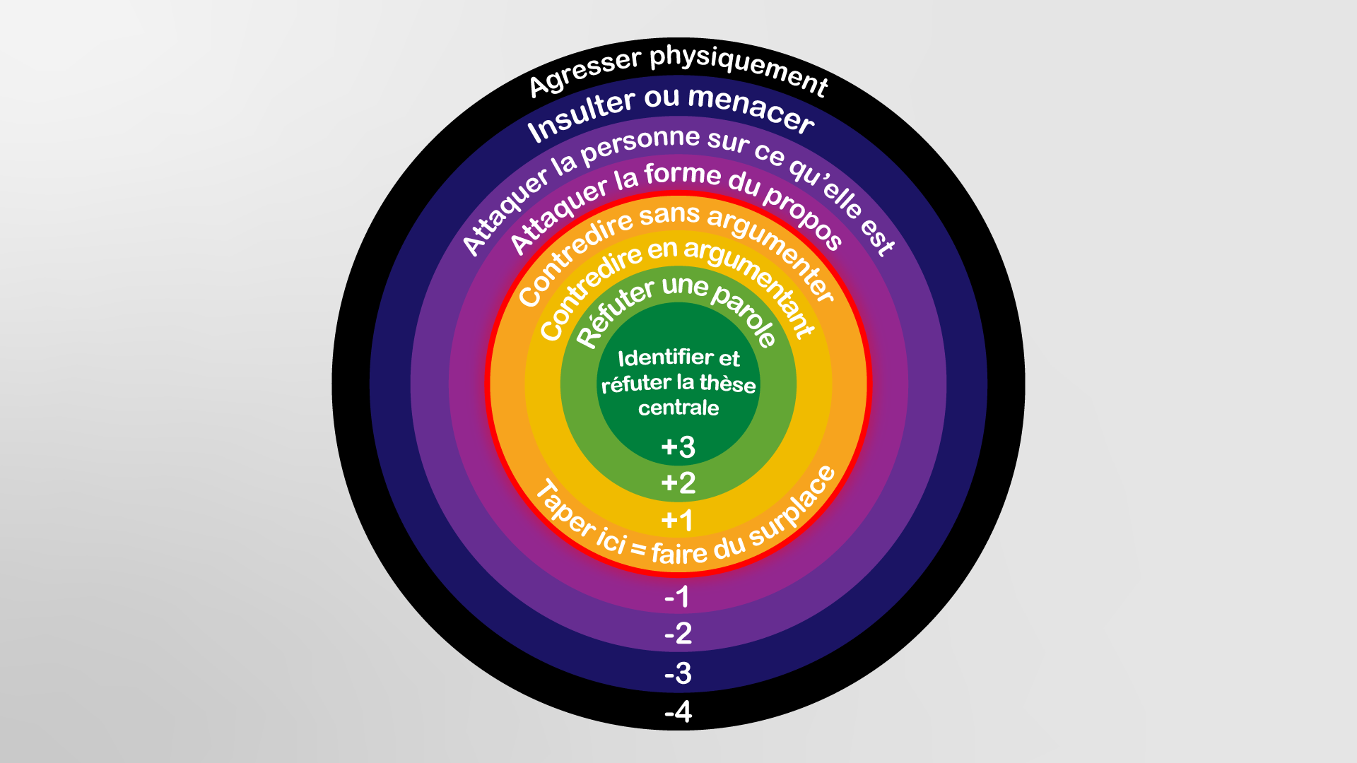 Graham's target, or how to disagree